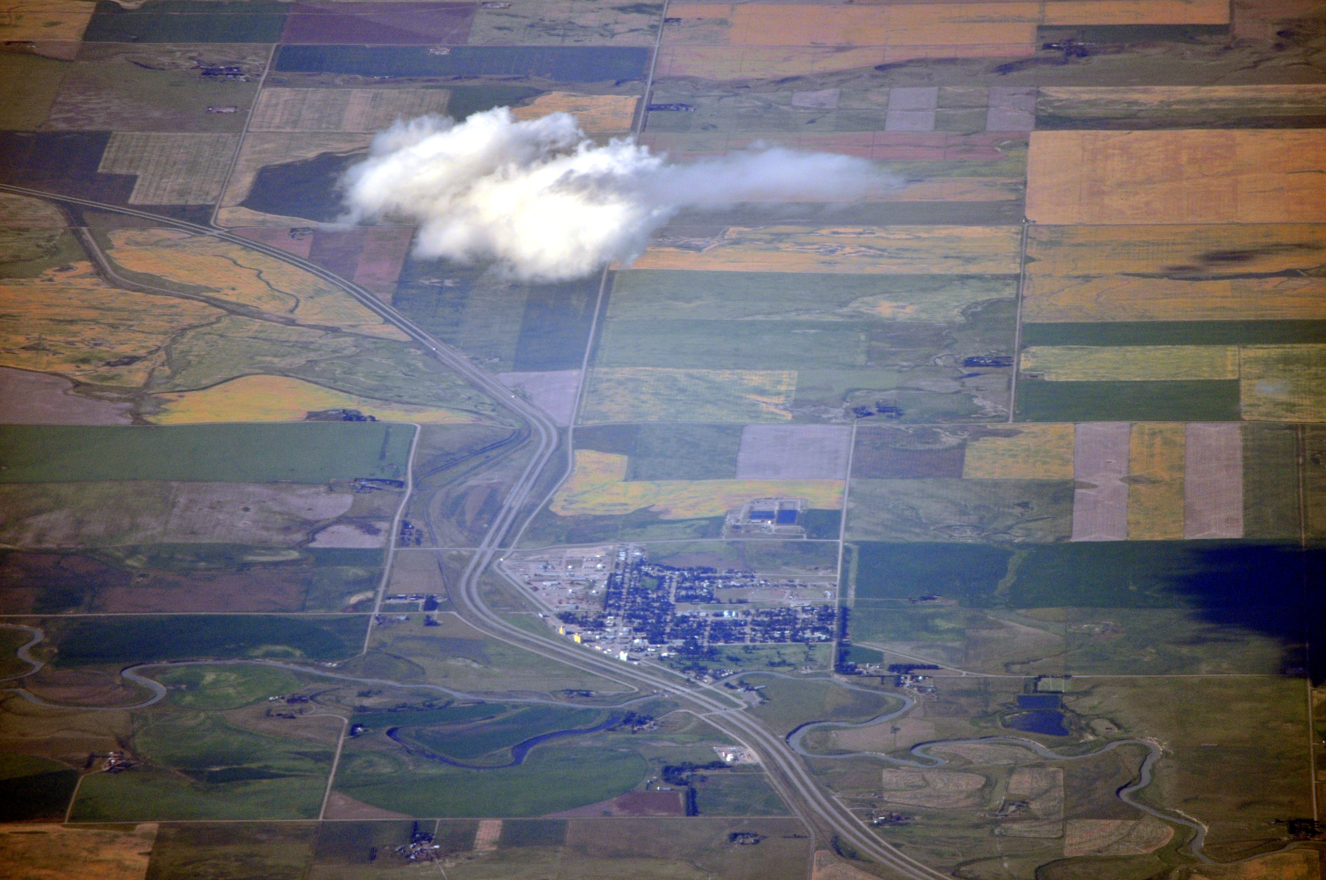 Aerial view of Milk River, Alberta, Canada.